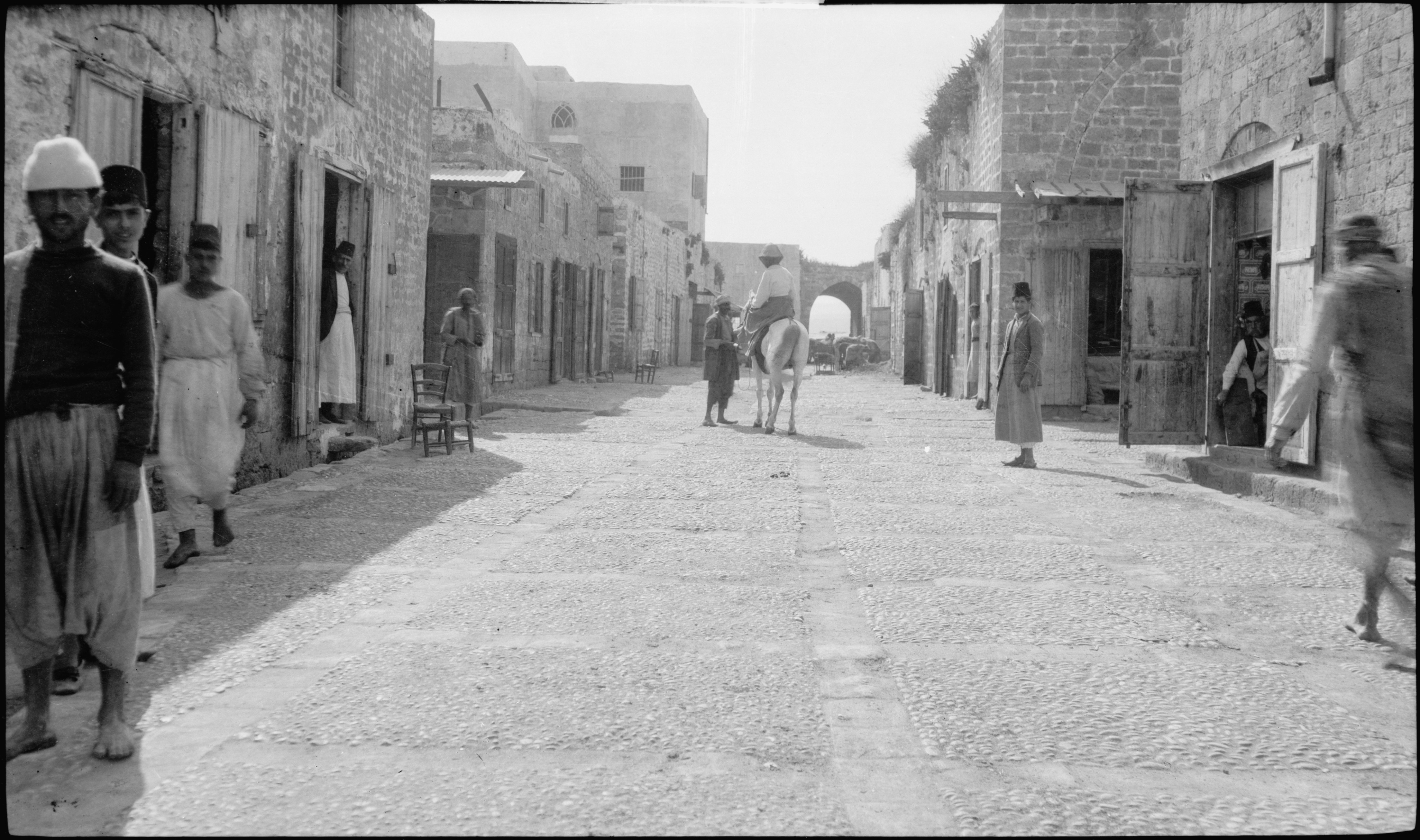 Title: Along the sea coast. Street in Tyre Abstract/medium: G. Eric and Edith Matson Photograph Collection Physical description: 1 negative